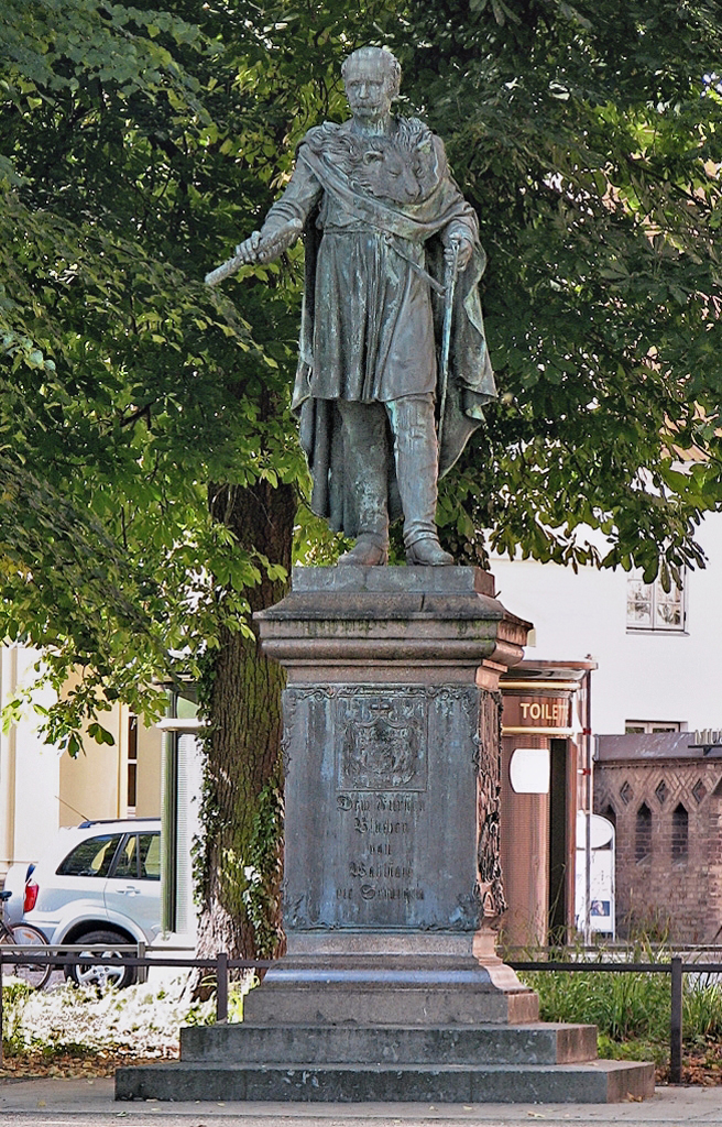 Blücher Monument in Rostock, Germany